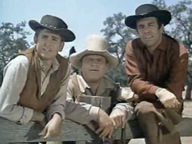 Cropped screenshot of Michael Landon, Dan Blocker and Pernell Roberts from the television series Bonanza. Episode: "Showdown" (1960).